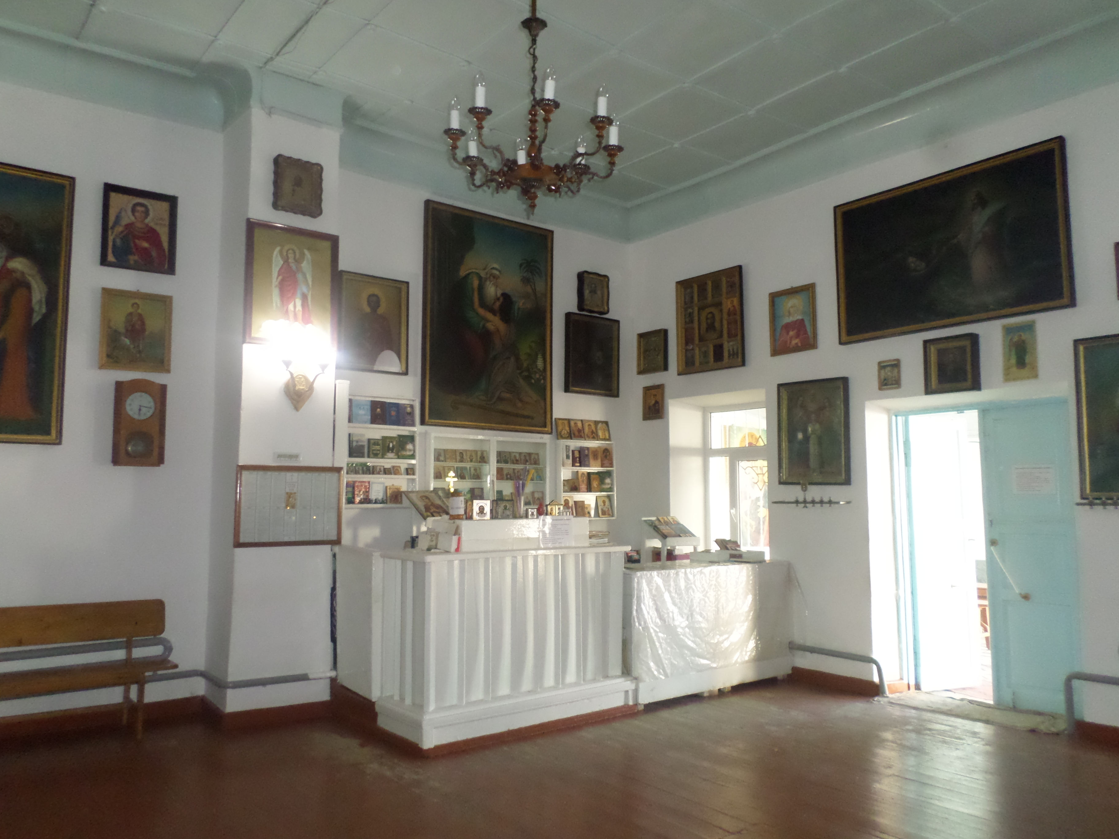 Church of St. George Victorious in Samarkand